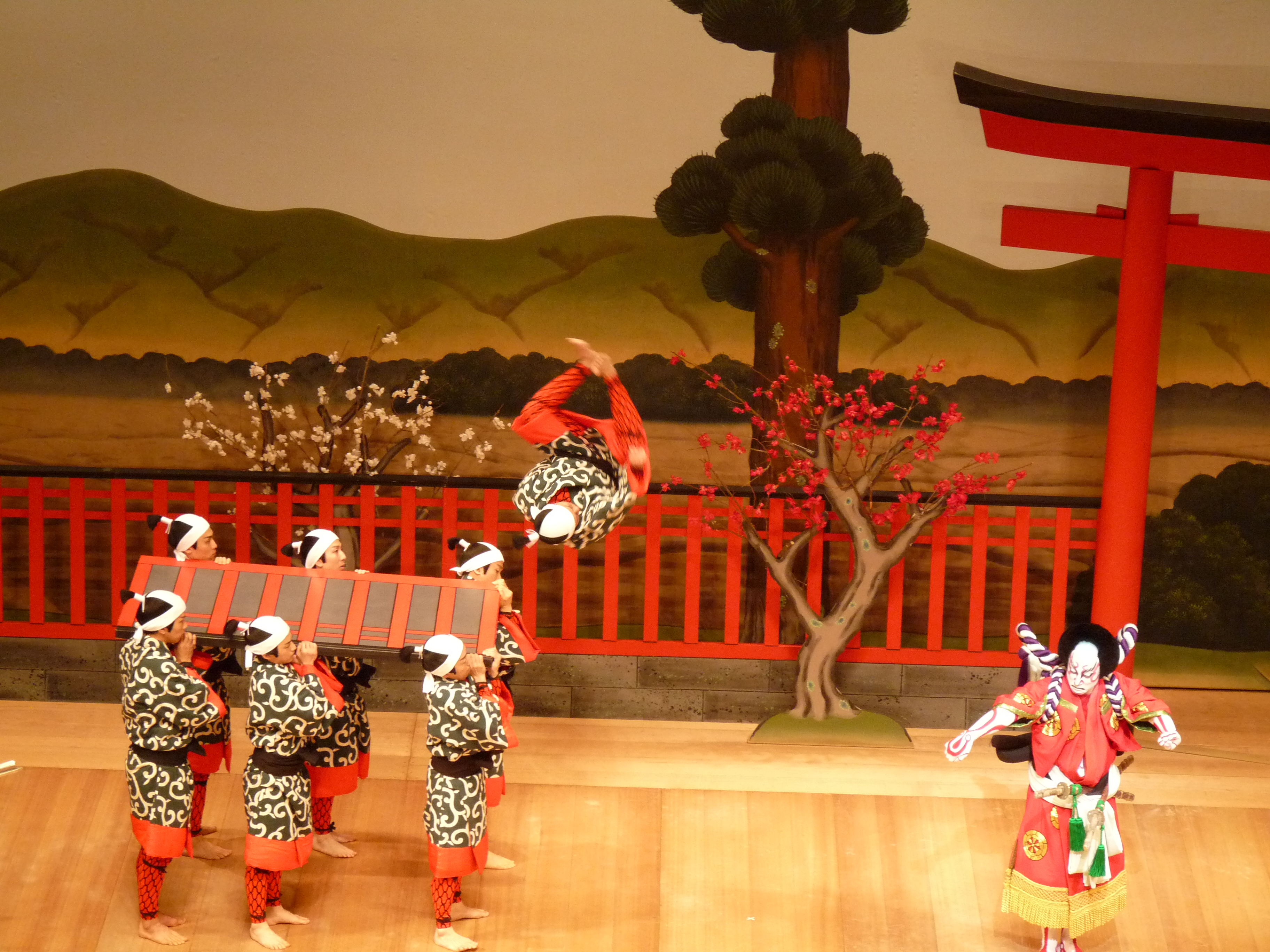 Kabuki Acrobats, Sadler's Wells Theatre, London - 11 June 2010, Location: London